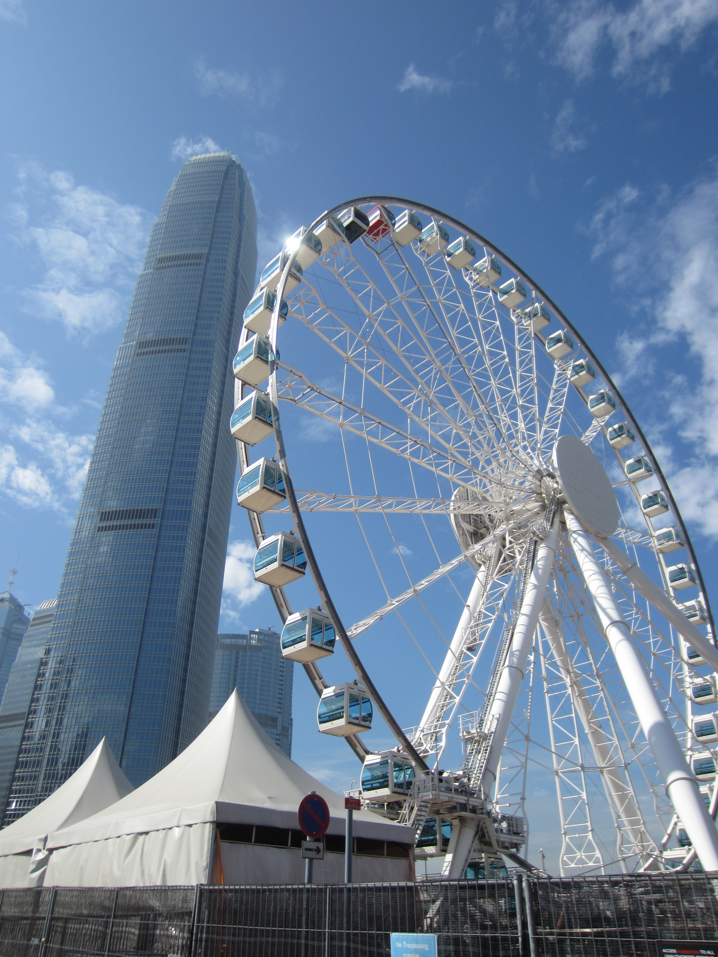 Hong Kong (November 2017)